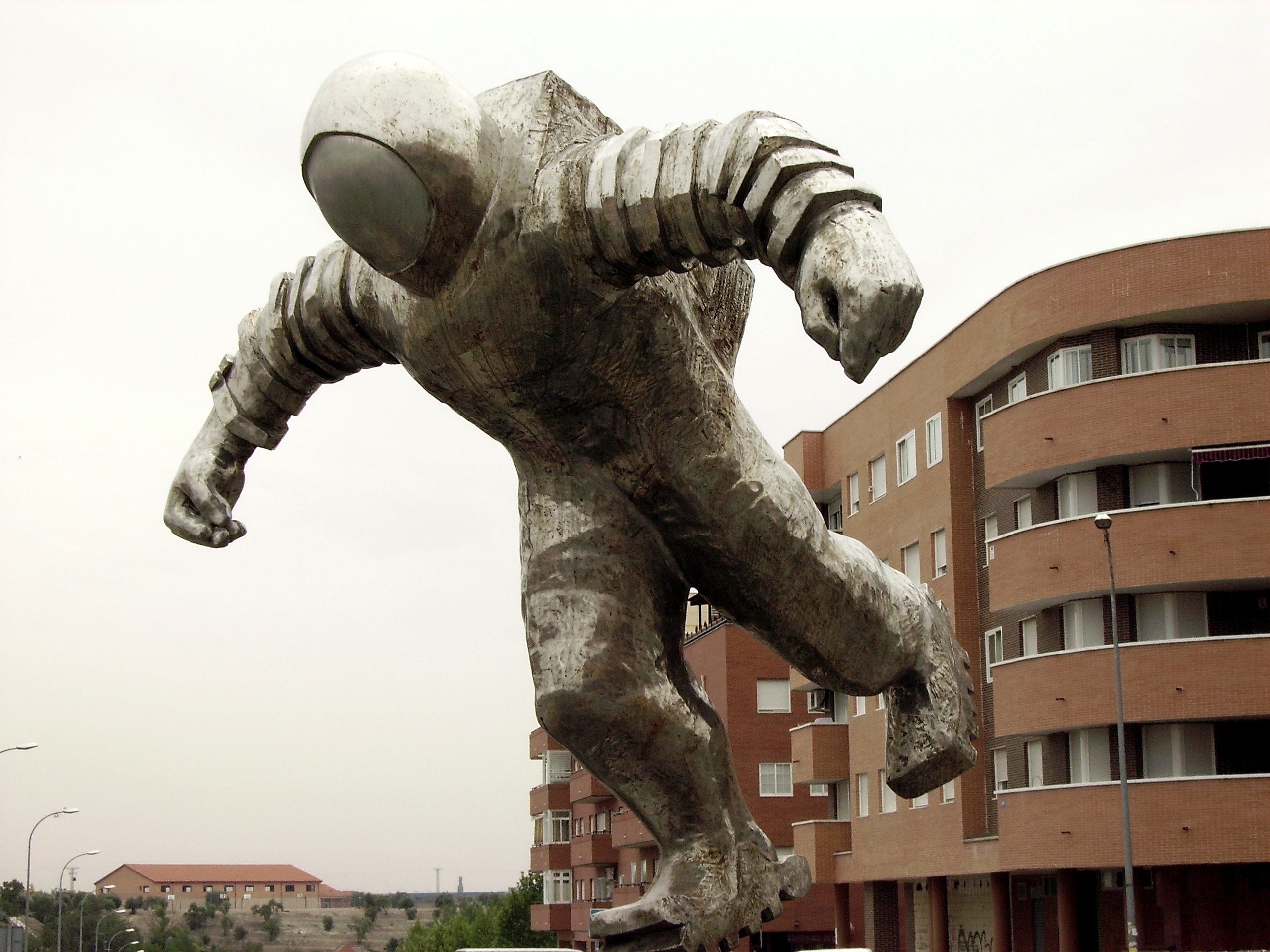 The Astronaut. Sculpture by Francisco Leiro (born 1957). Cast stainless steel. Weight: 2,600 kilos. Height: 4 metres. Inaugurated in Valdemoro (Community of Madrid, Spain) in 2001.